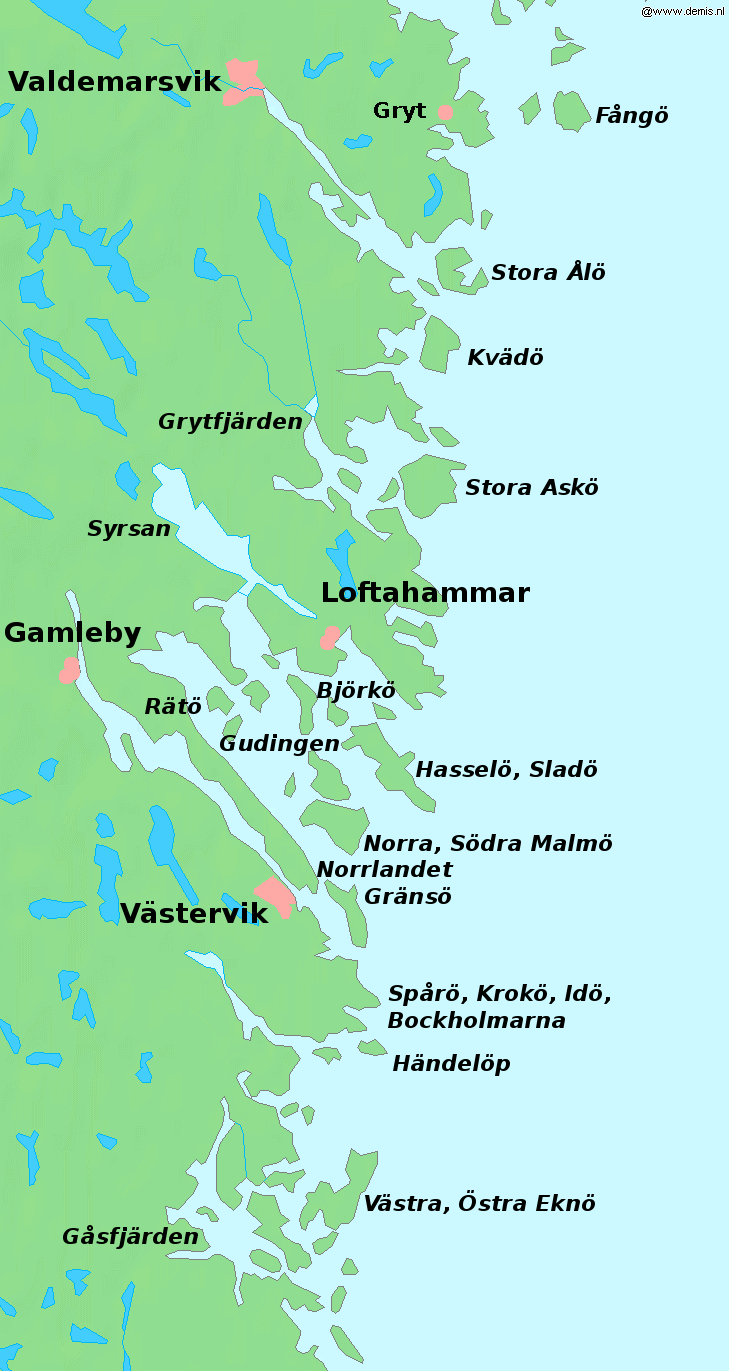 Map of Tjust region and archipelago in Sweden. Bounding box West 15.8°, South 57.4°, East 17.3°, North 58.4°. Center at 57°54′00″N 16°33′00″E / 57.90000°N 16.55000°E.